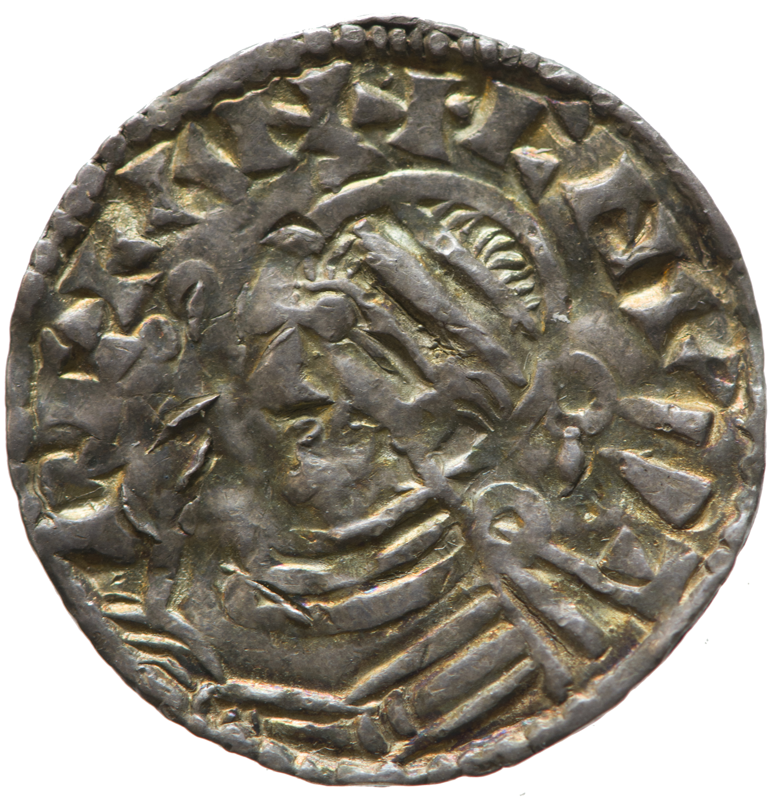 Obverse (front) of a silver penny of Harthacnut Head facing left